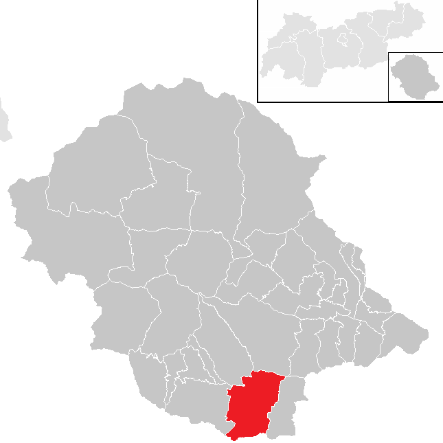 District Lienz